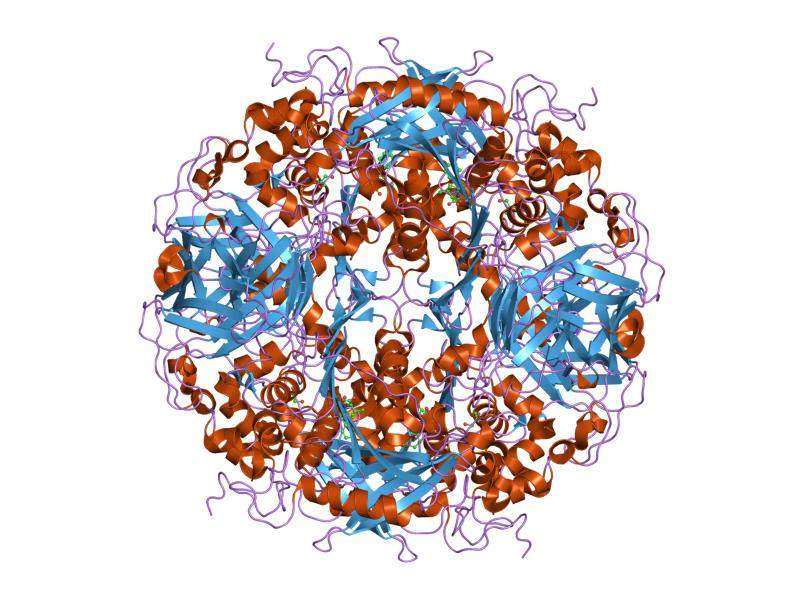 Cartoon representation of the molecular structure of protein registered with 1nx9 code.